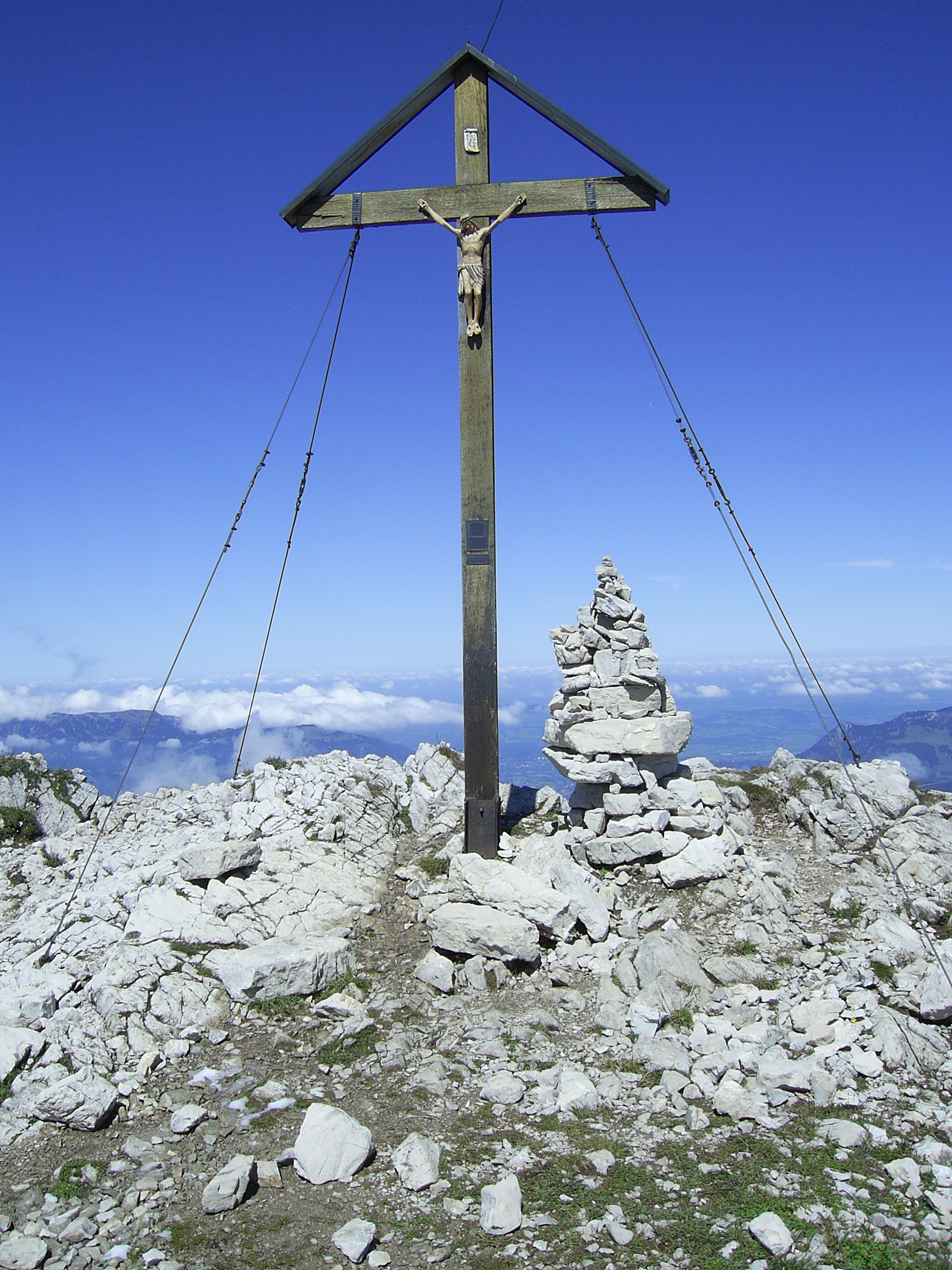 Germany - Bavaria: summit cross of Großer Daumen (= "great thumb").